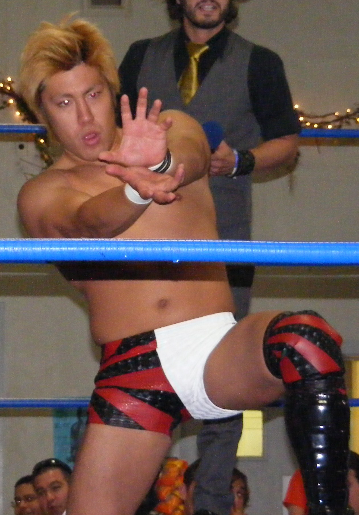 Professional wrestler Akira Tozawa at a Chikara show